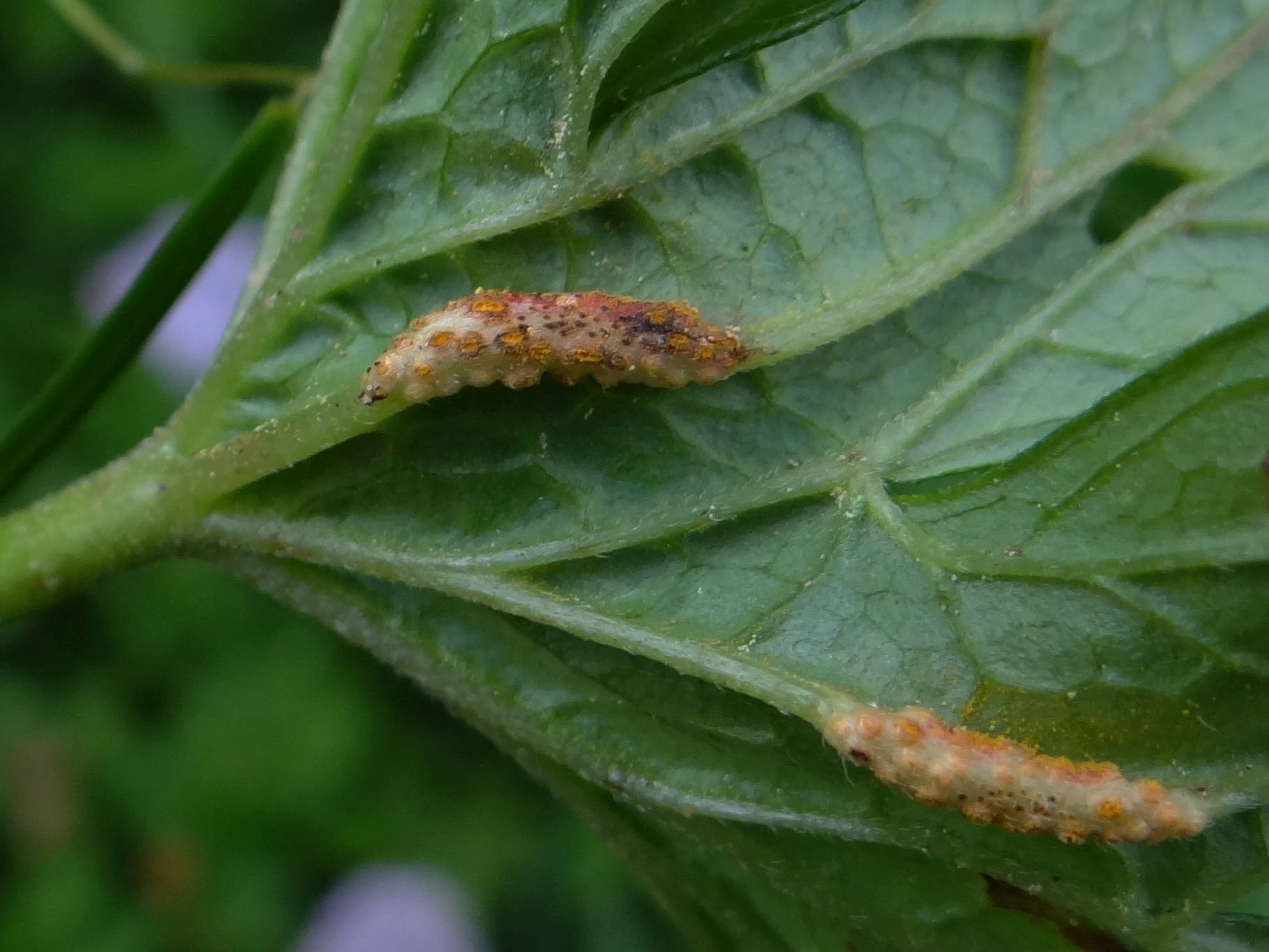 Uromyces geranii on leaf Geranium sp. Location: Poland, West Tatra Mountains, Dolina Tomanowa